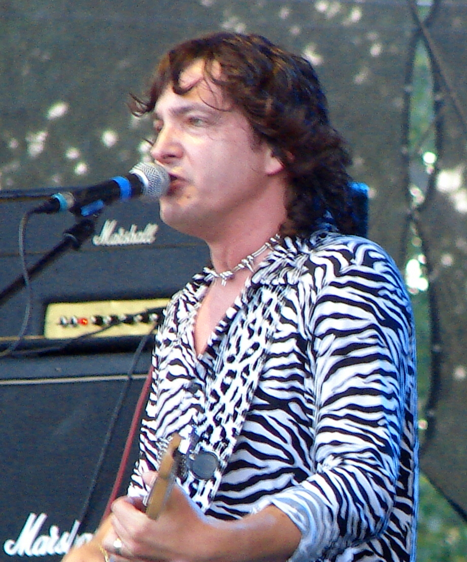 Martin Ďurinda of the band Tublatanka performing at Topfest, Slovakia, in 2009.